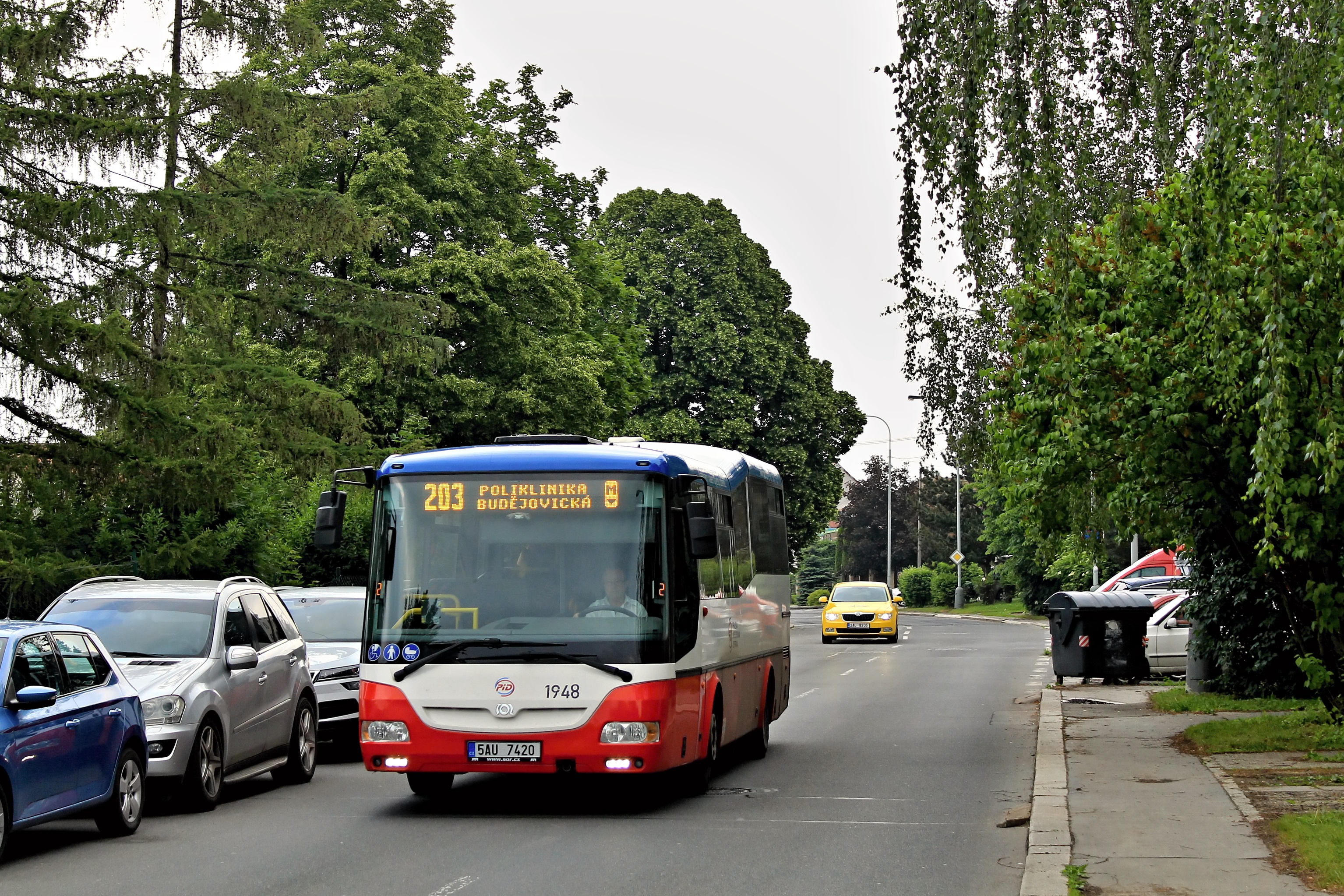 SOR BN 9,5, Praha, linka 203, Jižní Město